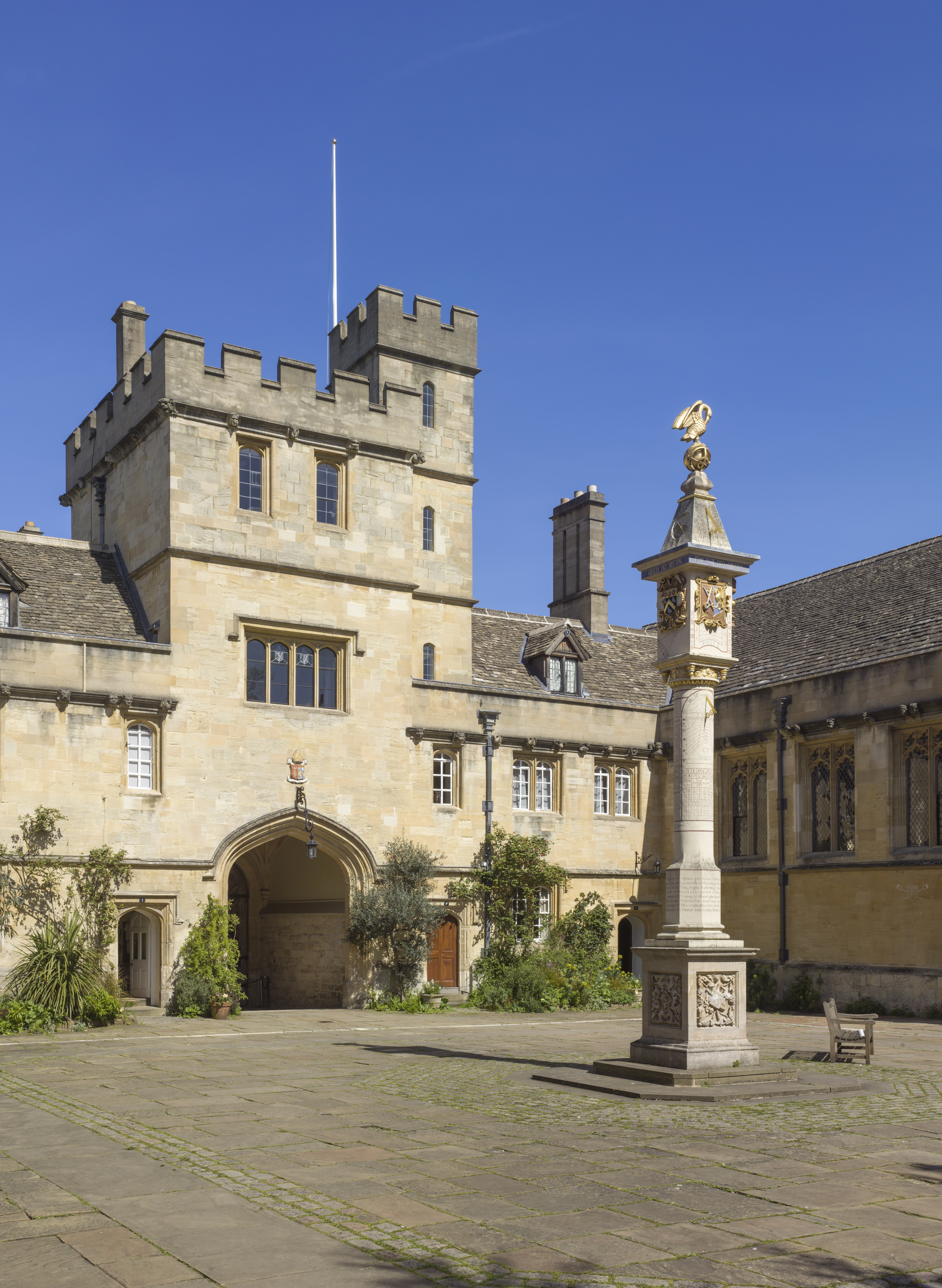 Corpus Christi College (Oxford University) founded in 1517. View of the entrance and Pelican Sundial (built 1581) in the main quadrangle. On top of the Column are displayed the personal coats of arms of the founders, namely Richard Foxe (d.1528), Bishop of Winchester (See of Winchester impaling Foxe (A pelican in her piety), and of Hugh Oldham, Bishop of Exeter